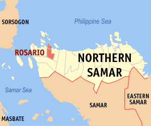 Map of Northern Samar showing the location of Rosario